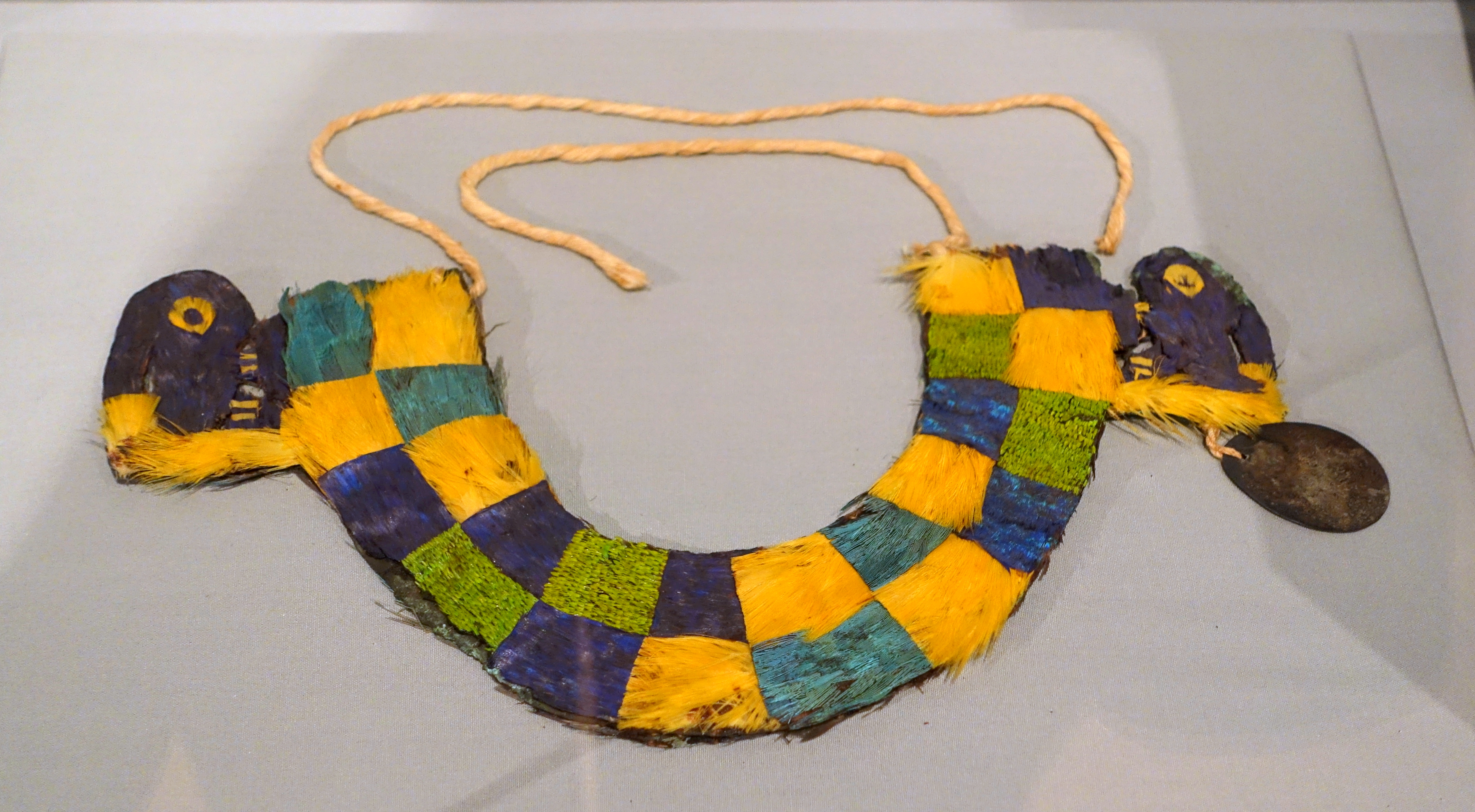 Exhibit in the Textile Museum, George Washington University, Washington, DC, USA. This work is old enough so that it is in the public domain.